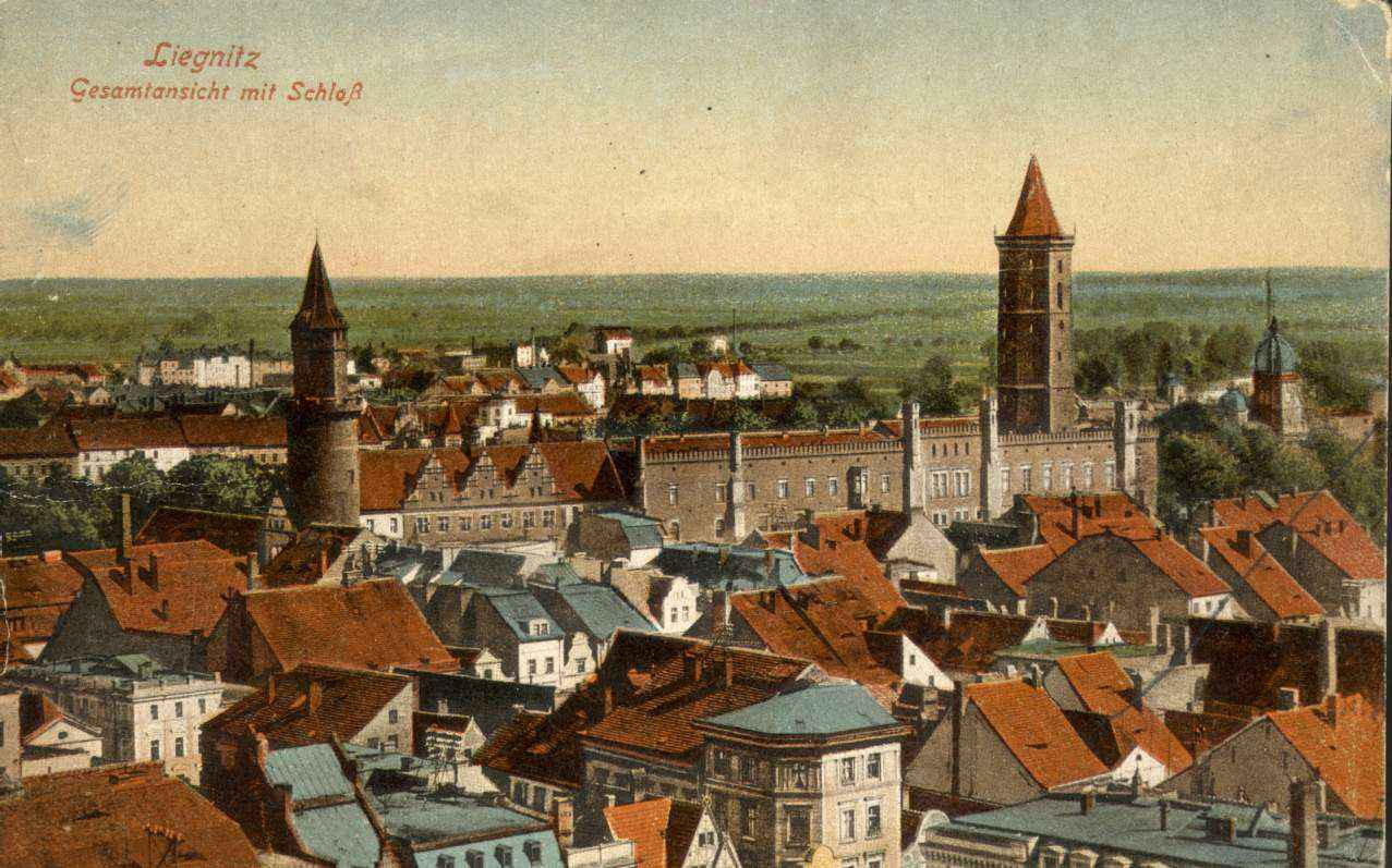 View from South-East side, early 20th century